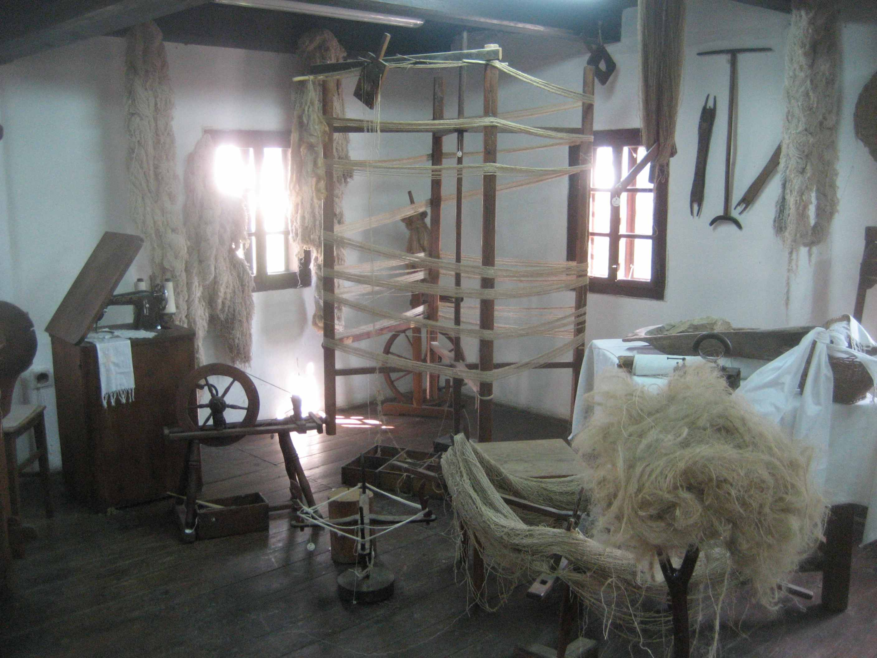 Etno-selo Kumrovec